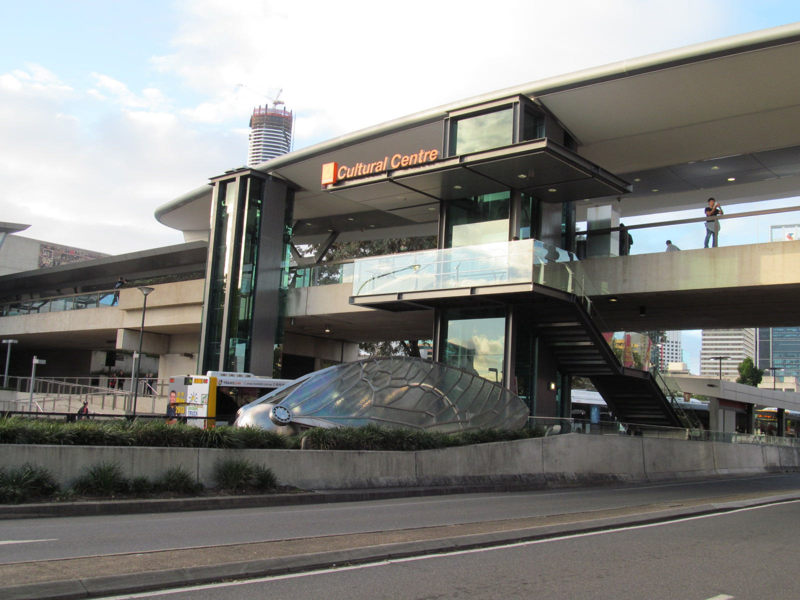 Front of the Cultural Centre busway station in South Brisbane, Queensland